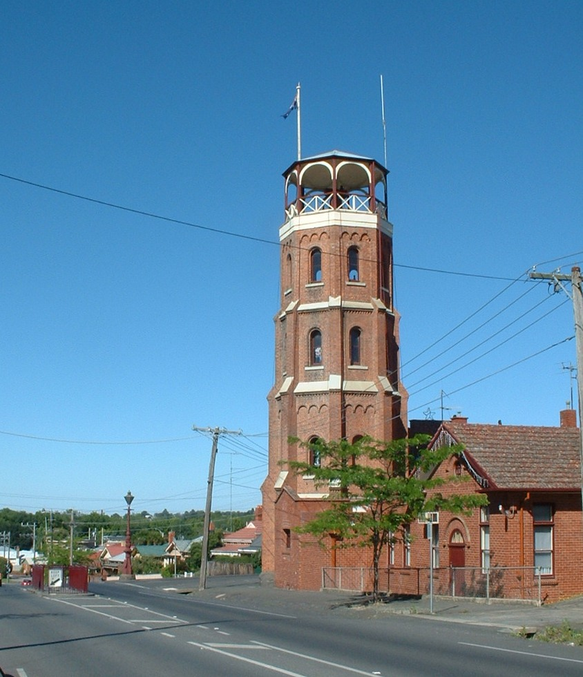 The fire station tower at the Ballarat East Fire Station, in Barkly Street, Ballarat, Victoria, Australia.